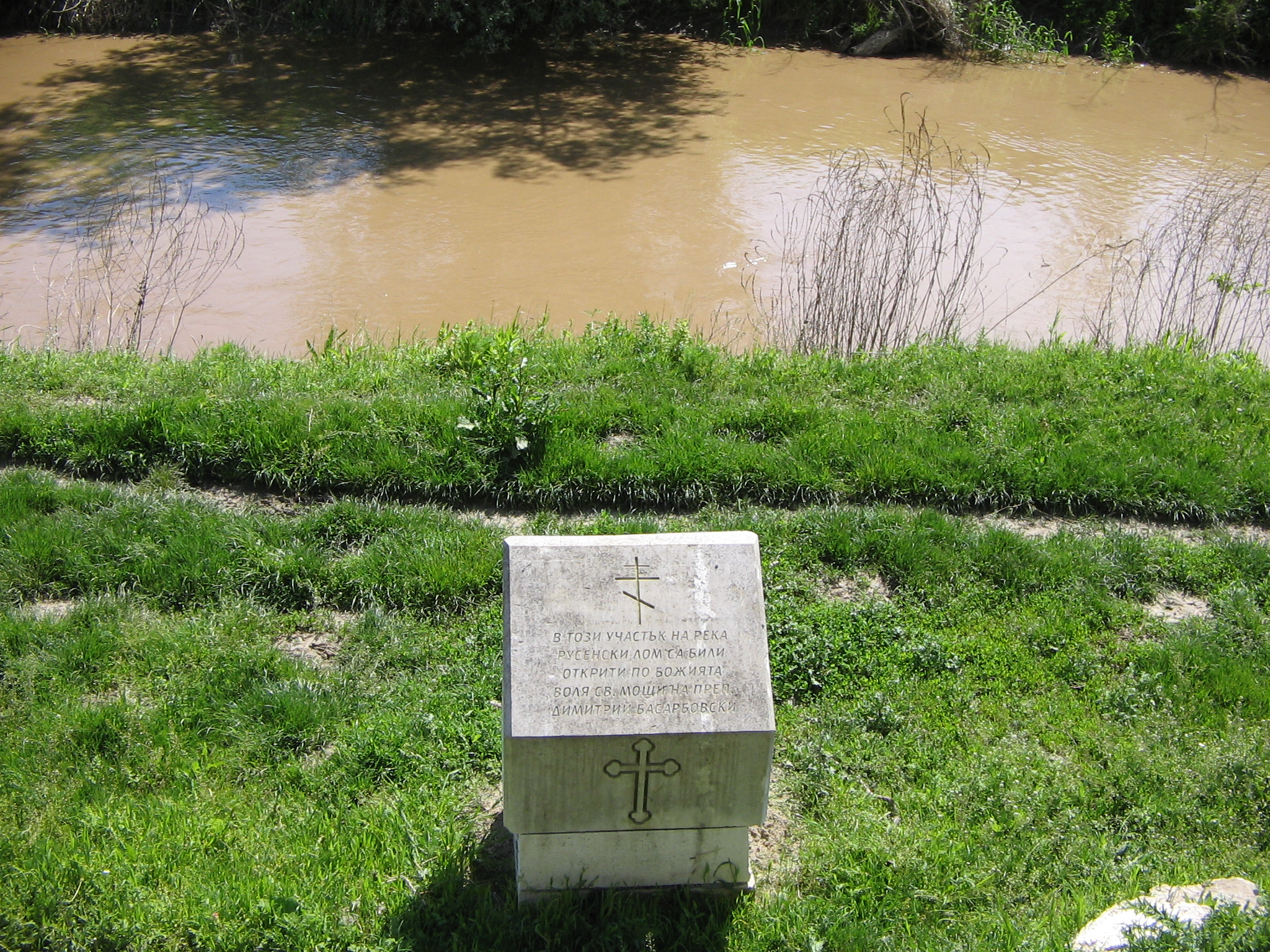 At this place, near river Rusenski Lom (Bulgaria) and the Saint Dimitur Basarbovsky rock monastery, a memorial is placed indicating the place where the Saint's relics have been discovered.